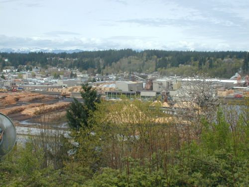 Simpson lumber mill in Shelton, Washington, on the Oakland Bay. Simpson was (and is) the driving force behind the town's existence.